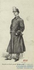 Student of the special military school at Saint-Cyr, cavalry section (1883). This illustration appeared in L'Armee Française by Jules Richard, illustrated by Édouard Detaille, first published in 1885.